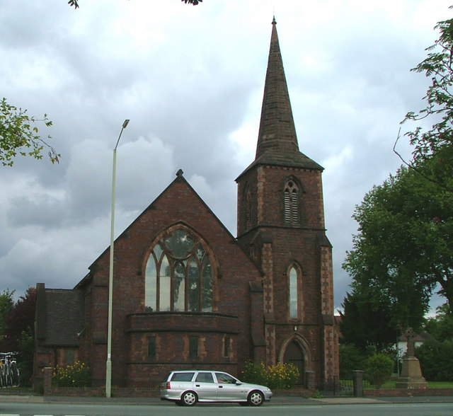 St John the Evangalist parish church, Trent Vale, Stoke-on-Trent, seen from the west